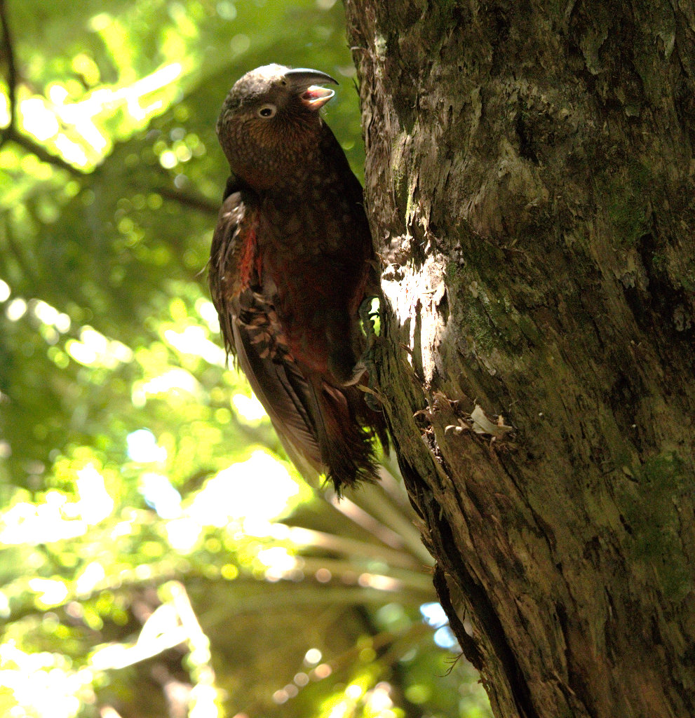 This was one of two fledglings exploring the area around its nest, which was a hole in a nearby tree trunk. It cannot yet fly.